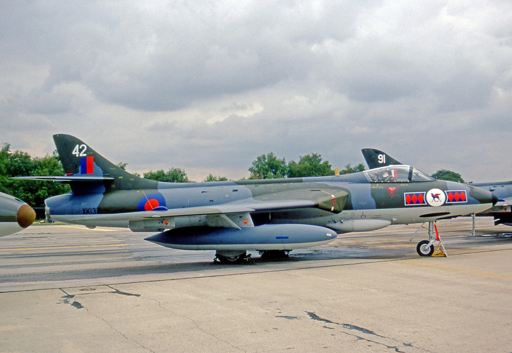 Hawker Hunter FGA.9 XK137 of 45 Squadron RAF in July 1976